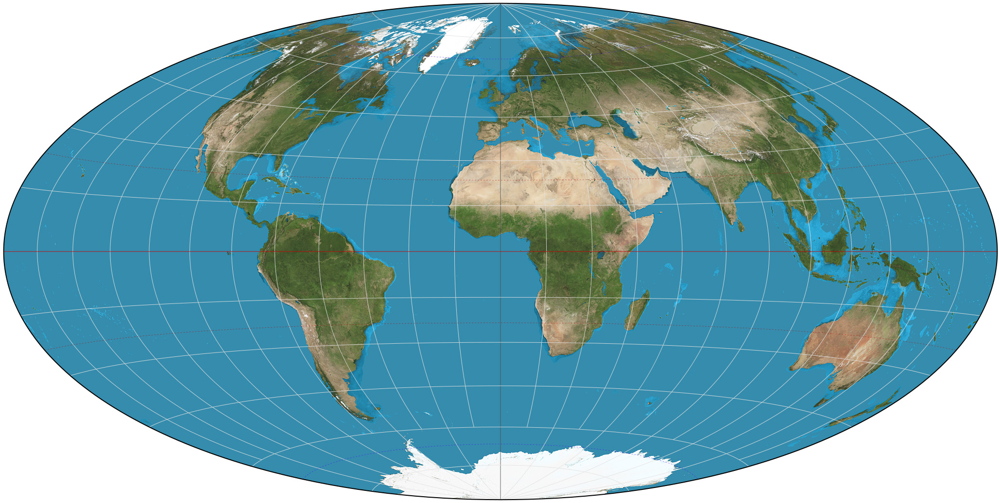 The world on Hammer projection. 15° graticule. Imagery is a derivative of NASA’s Blue Marble summer month composite with oceans lightened to enhance legibility and contrast. Image created with the Geocart map projection software.